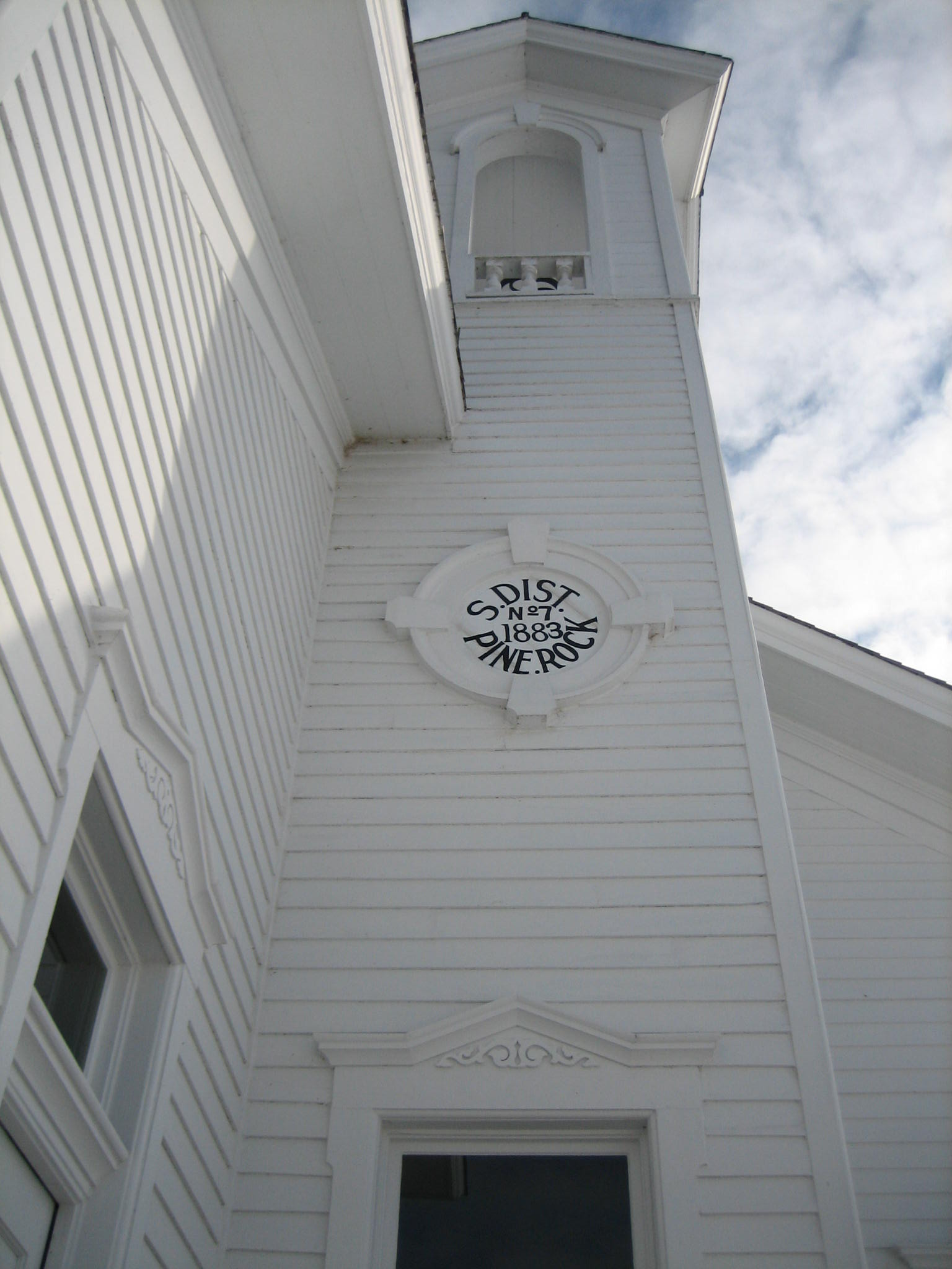 Chana School, Oregon, Illinois. National Register of Historic Places.